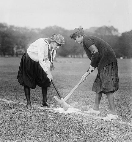 The slide title is "Girls hockey" and it depicts two players preparing to bully-off at the centre of the pitch to (re)start the match.